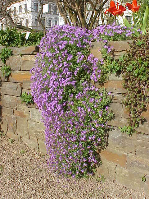 Species: Aubretia x cultorum Family: Brassicaceae Image No. 2